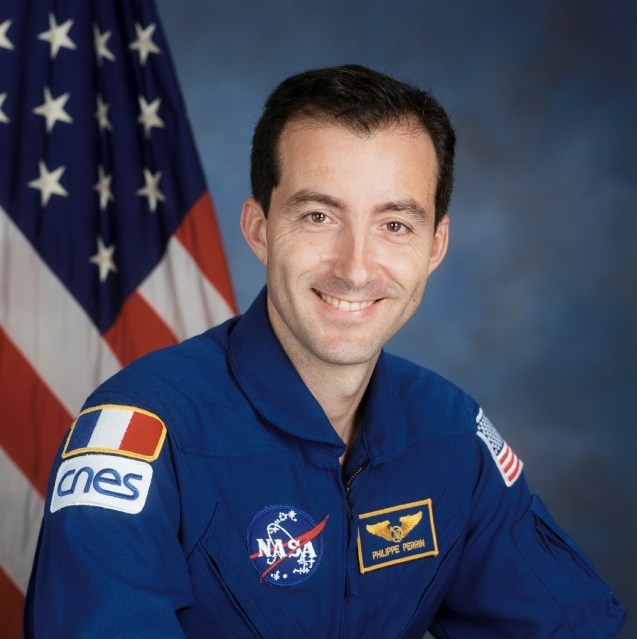 Astronaut Philippe Perrin, STS-111 mission specialist representing CNES, the French Space Agency.